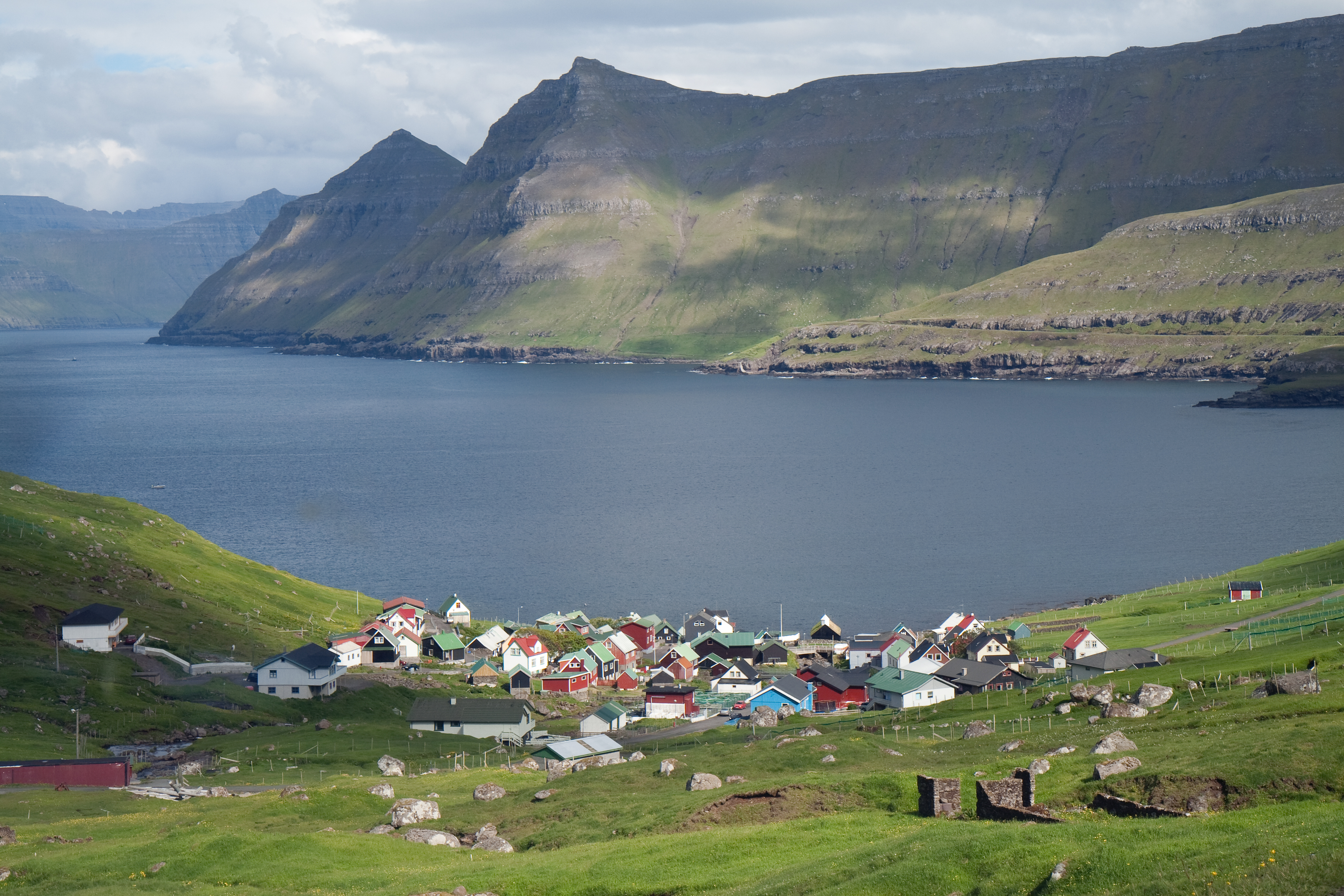 Funningur, a town on the Faroe Islands.